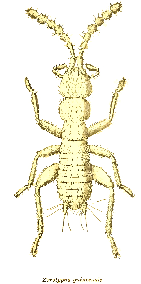 Zorotypus guineensis. Insect order Zoraptera. The main illustration of the type specimen published by F. Sylvestri Bollettino del Laboratorio di zoologia generale e agraria della R. Scuola superiore d'agricoltura in Portici Volume 7 1913 pp. 193-209